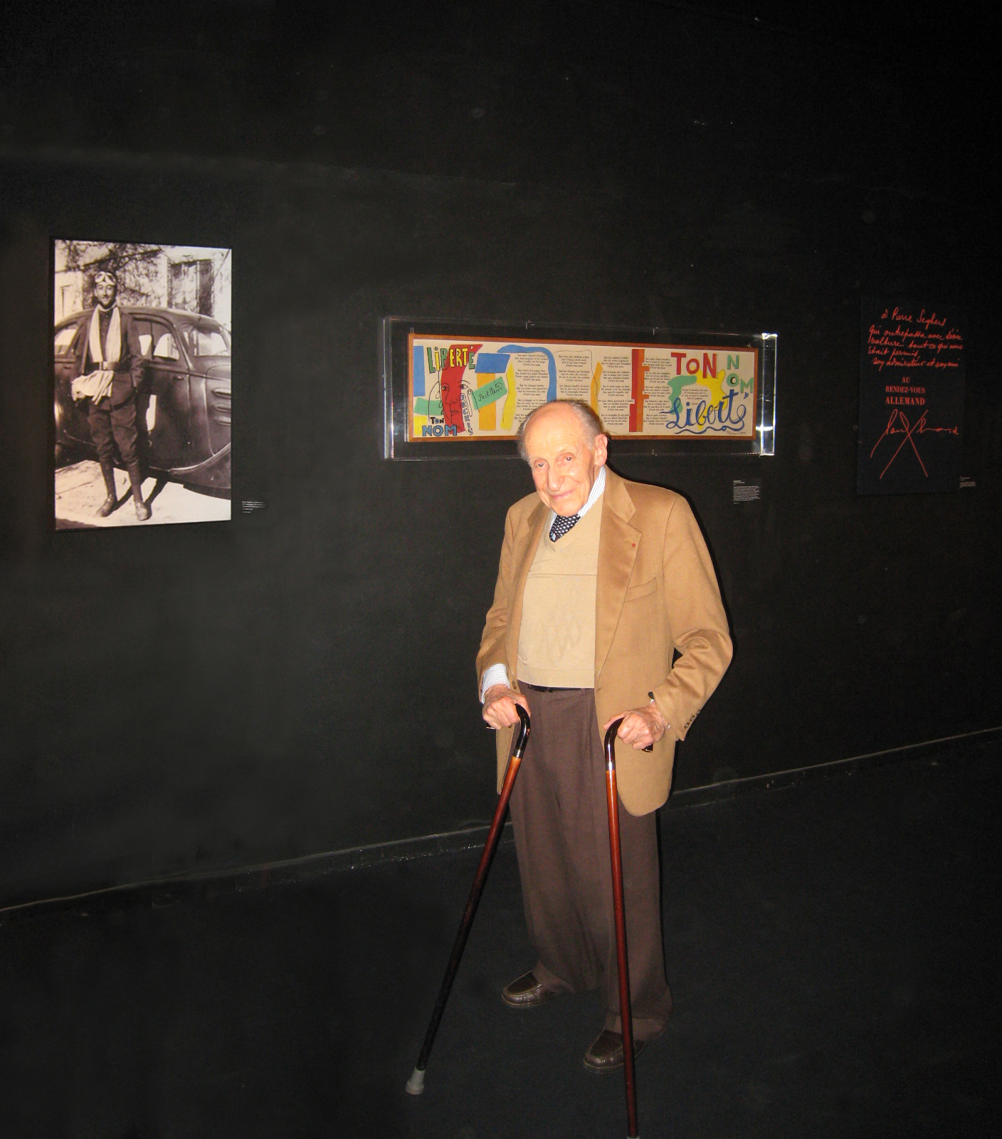 French poet Georges-Emmanuel Clancier at the opening of the exhibition "Pierre Seghers, poésie la vie entière", Paris July 2011